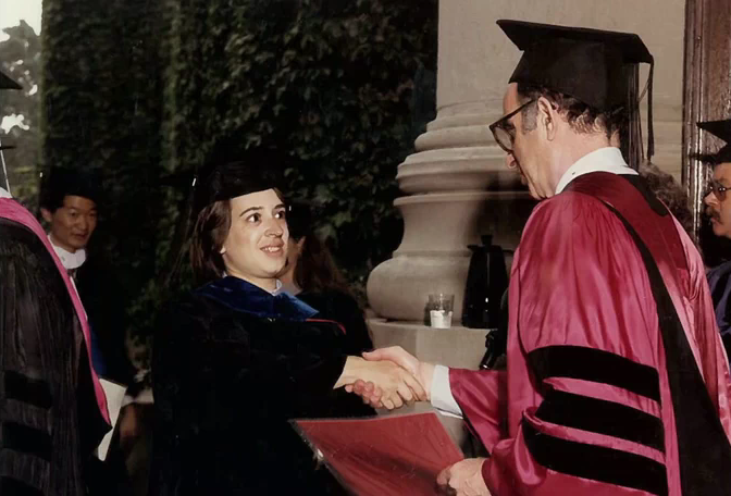 Elena Kagan receives her diploma from Harvard Law School in 1986. Part of a slide show, "The Life of Elena Kagan"